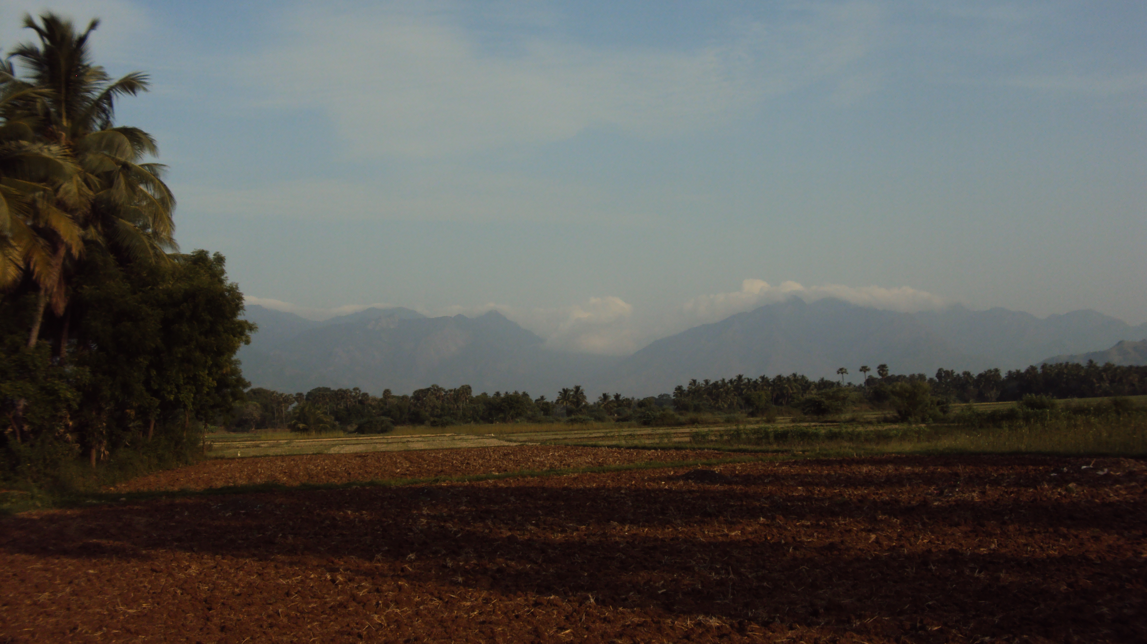 Beautiful Poovankurichi, Tirunelveli